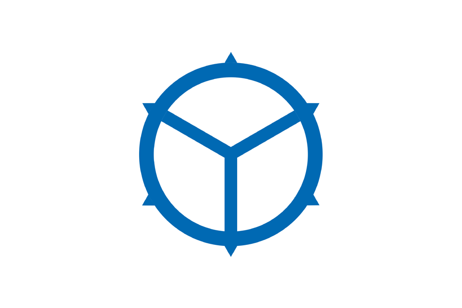 Flag of Matsue, Shimane